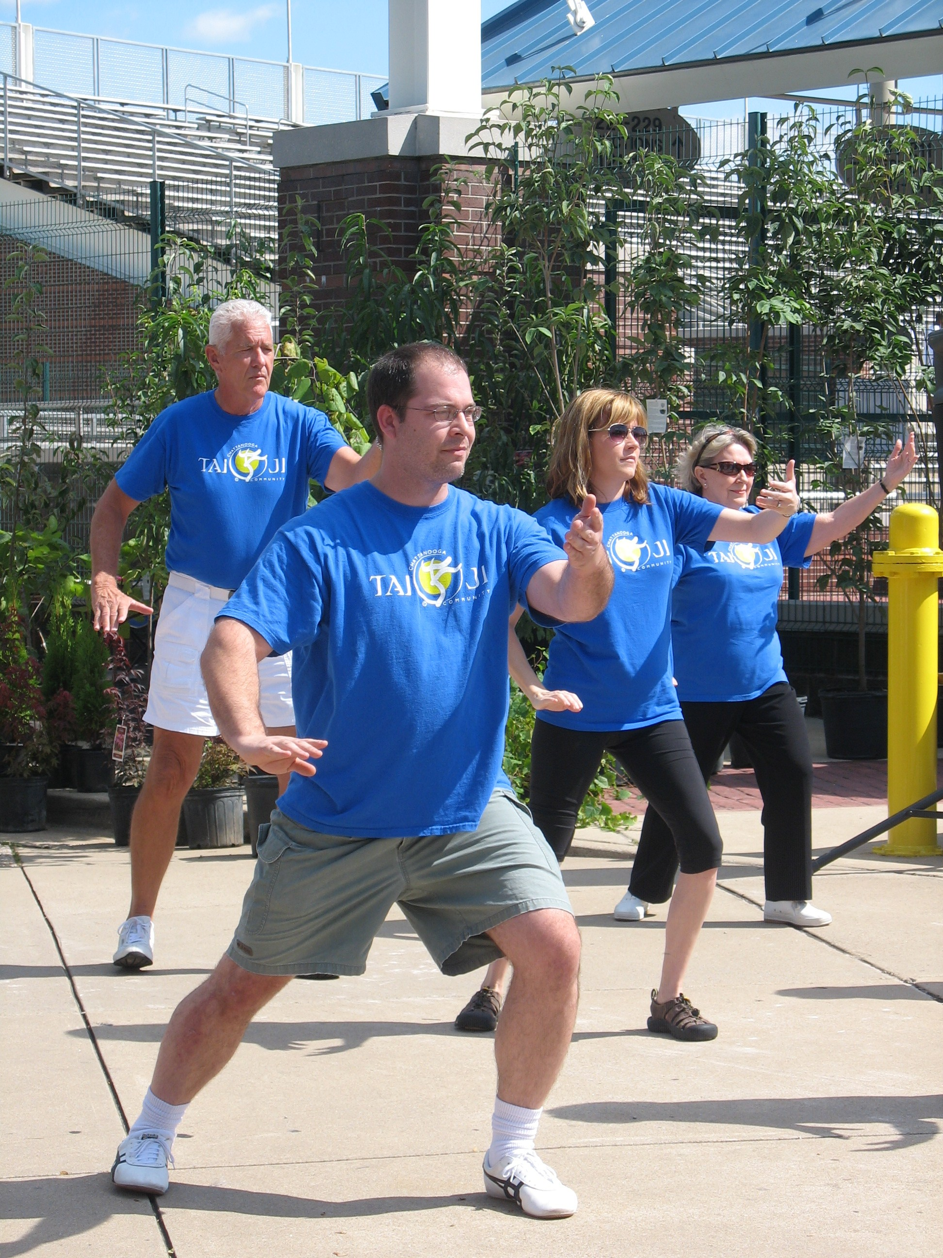 Yang style Tai Ji demo at Culture Fest in Chattanooga.